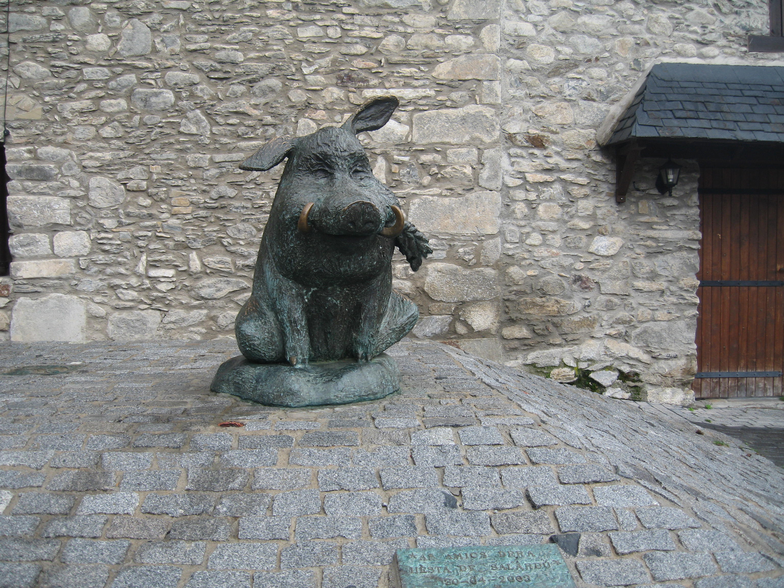 A statue of a pig in Salardú in Aran Valley